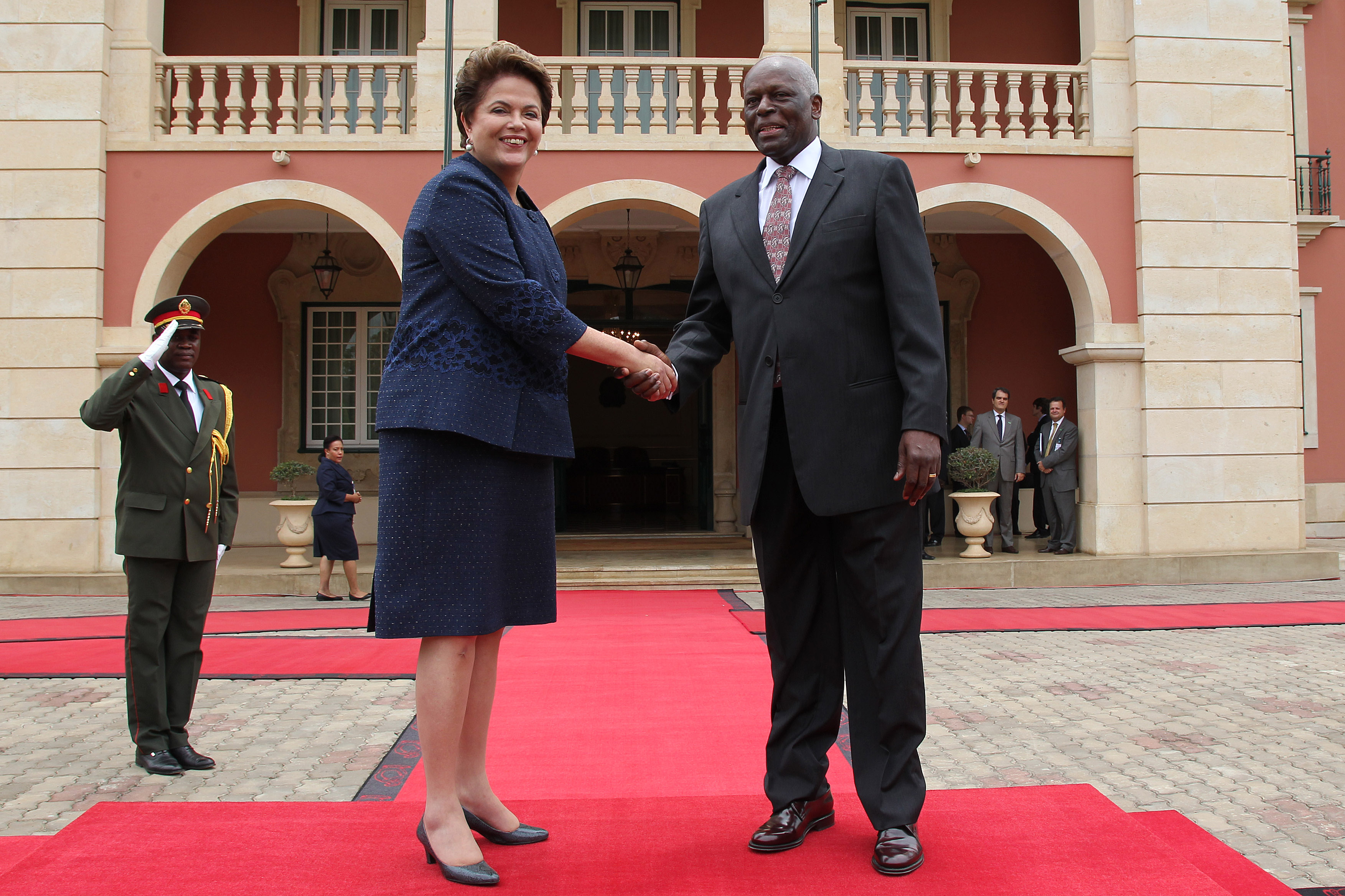 Brazilian President Dilma Rousseff meets with Angolan President José Eduardo dos Santos at the Presidential Palace in Luanda, Angola.